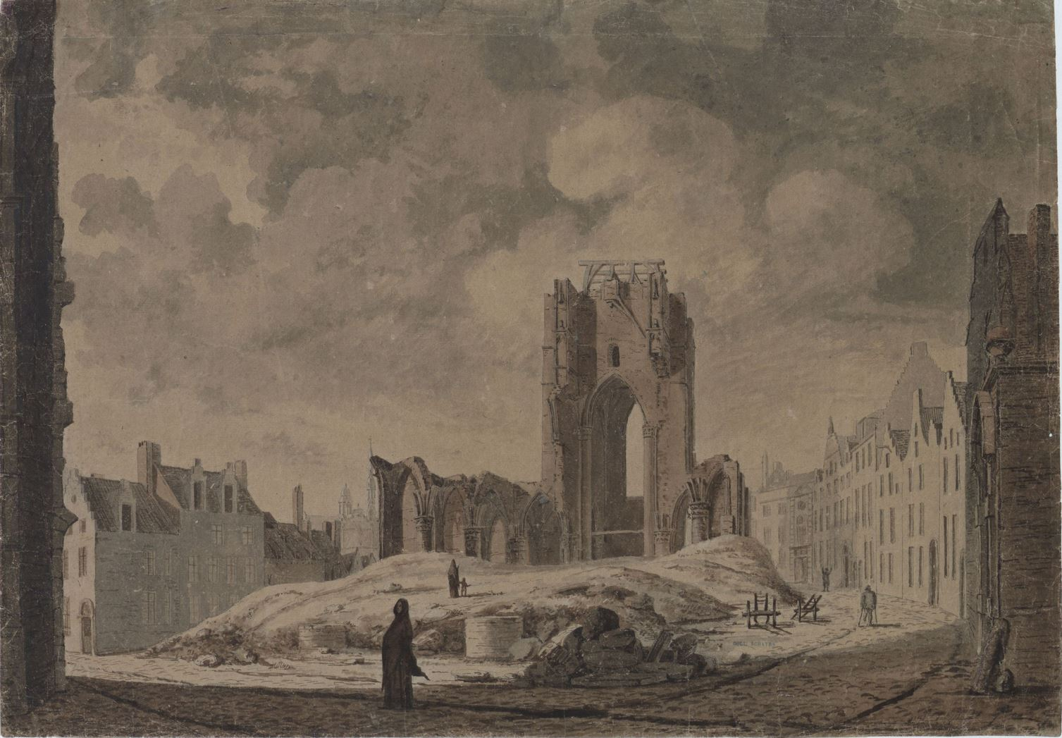 View of the ruins of the church of St Géry in Brussels (paul Vitzthumb fecit an 7) 447 x 635 mm